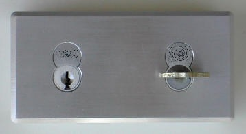 A key retainer. The original author of this photo has listed this photo as public domain.